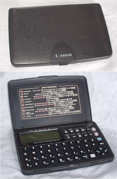 a PDA close and open. --Mamun2a 05:06, 16 September 2006 (UTC)